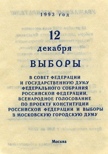 Russian voter invitation card, Russian Duma elections, December 12, 1993. Obverse.